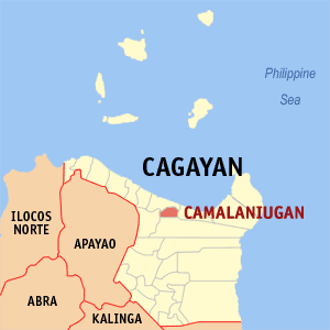 Map of Cagayan showing the location of Camalaniugan